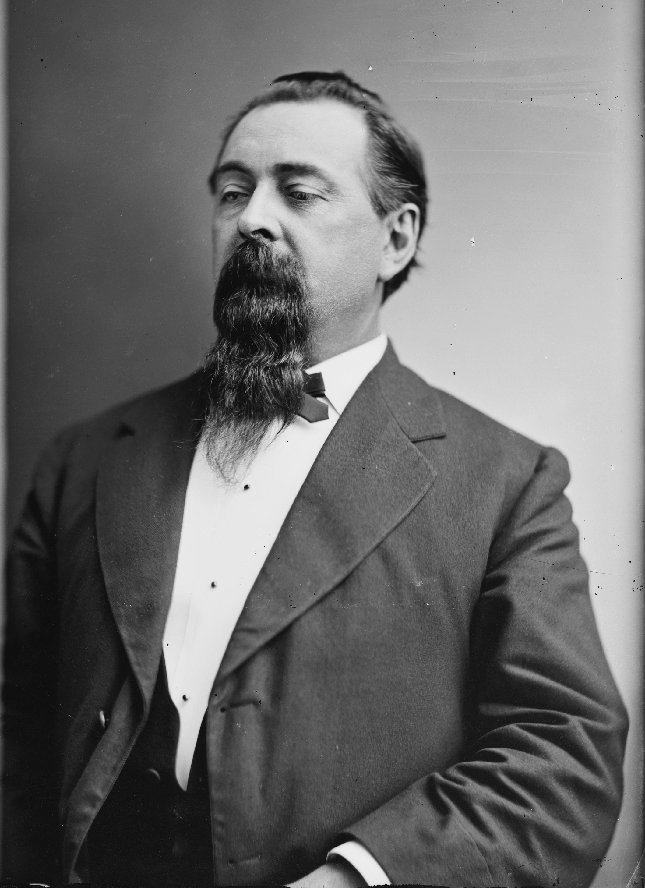 Romualdo Pacheco. Library of Congress description: "Pacheco, Hon. Romualdo of Cal.".